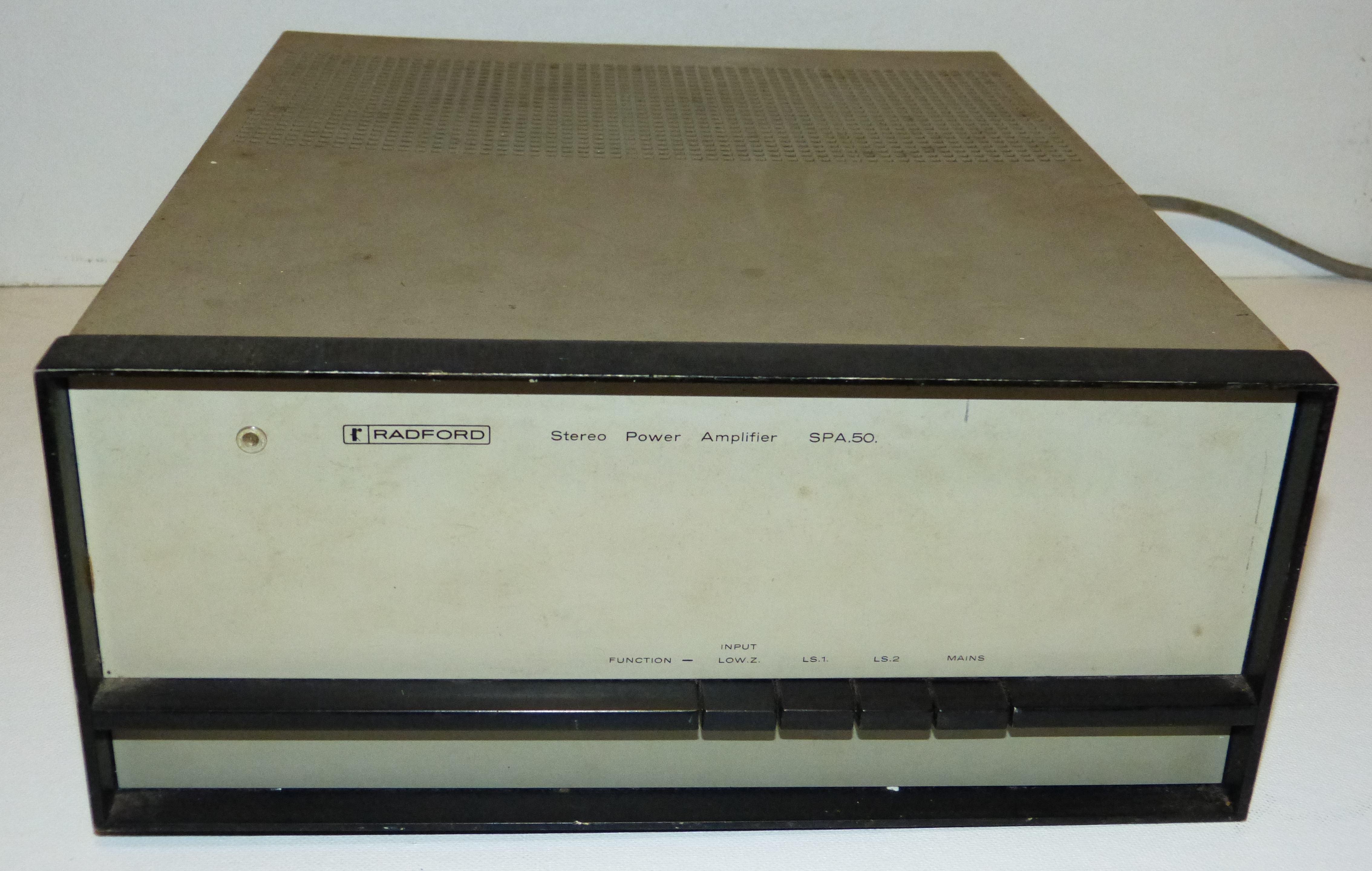 A photo of a Radford Electronics SPA50 power amplifier.